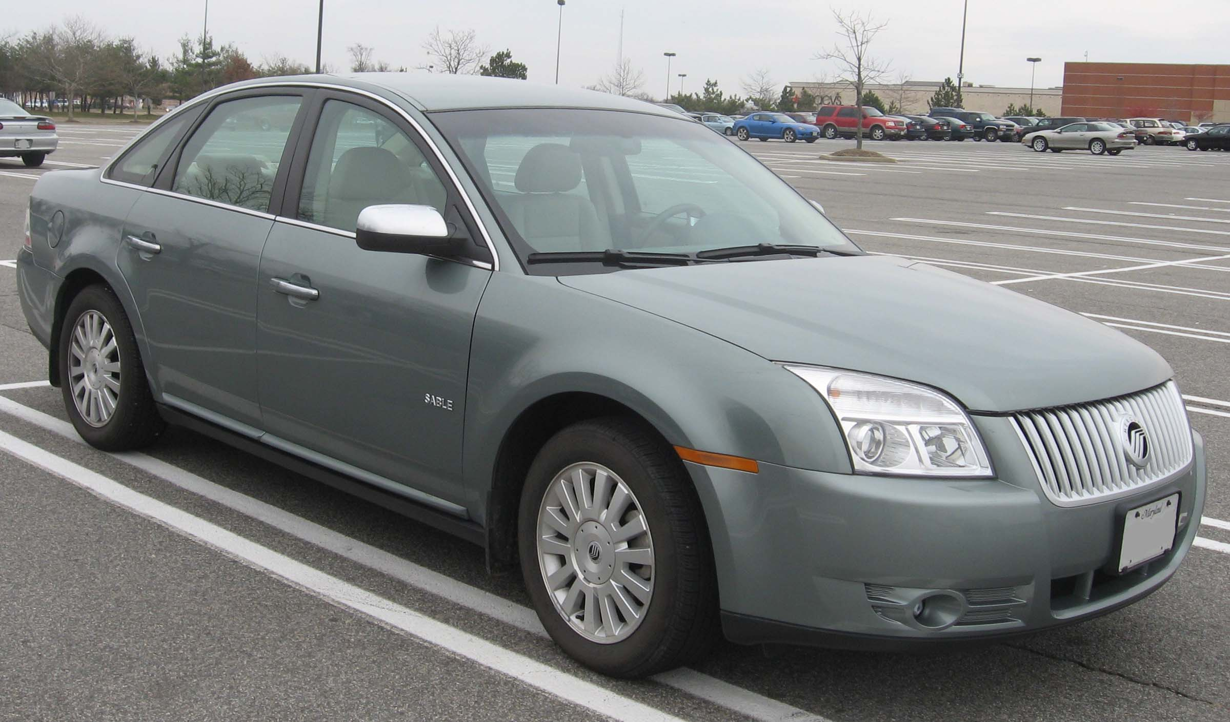 2008 Mercury Sable photographed in Waldorf, Maryland, USA.